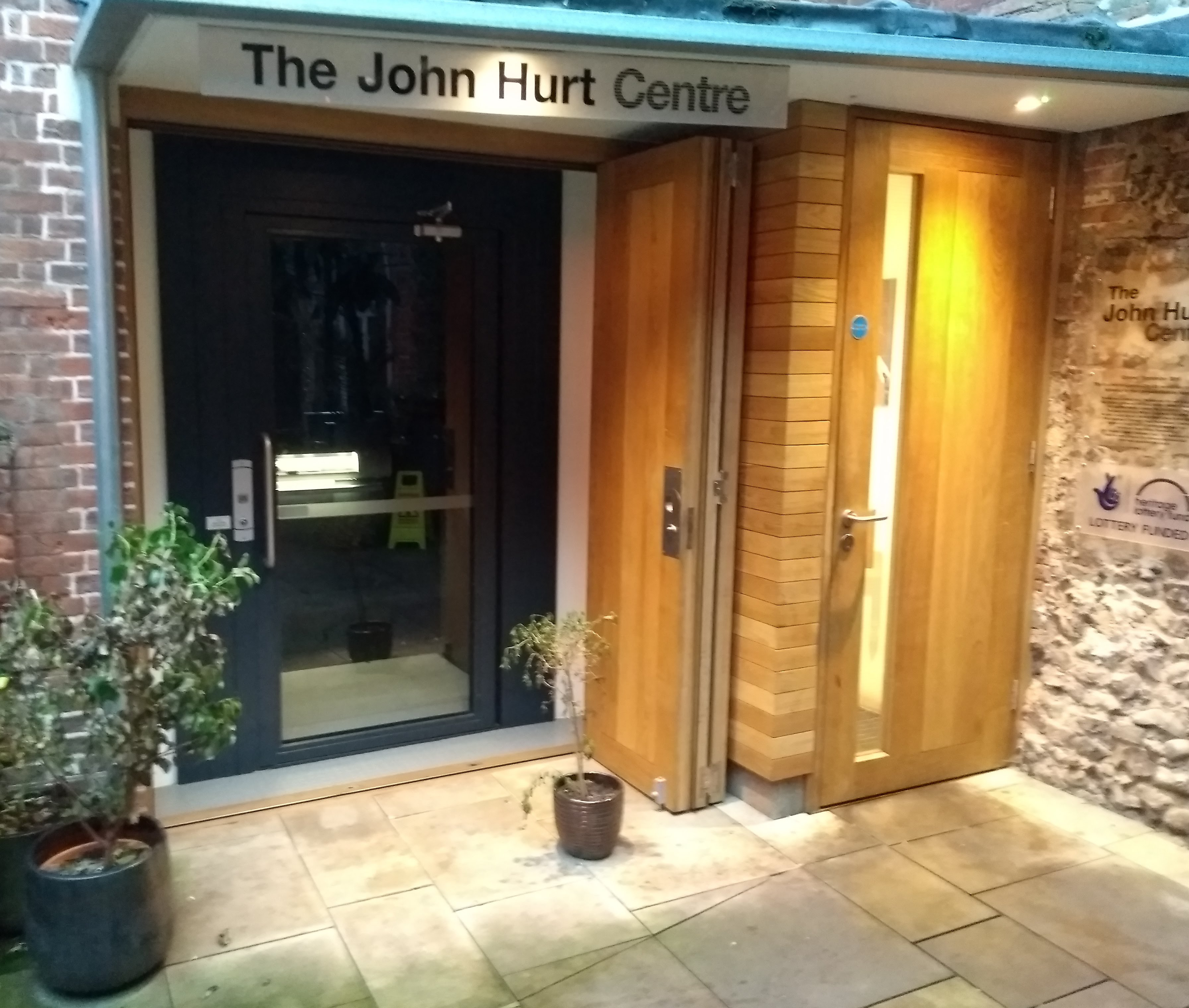 The John Hurt centre is located at the Norwich Cinema City